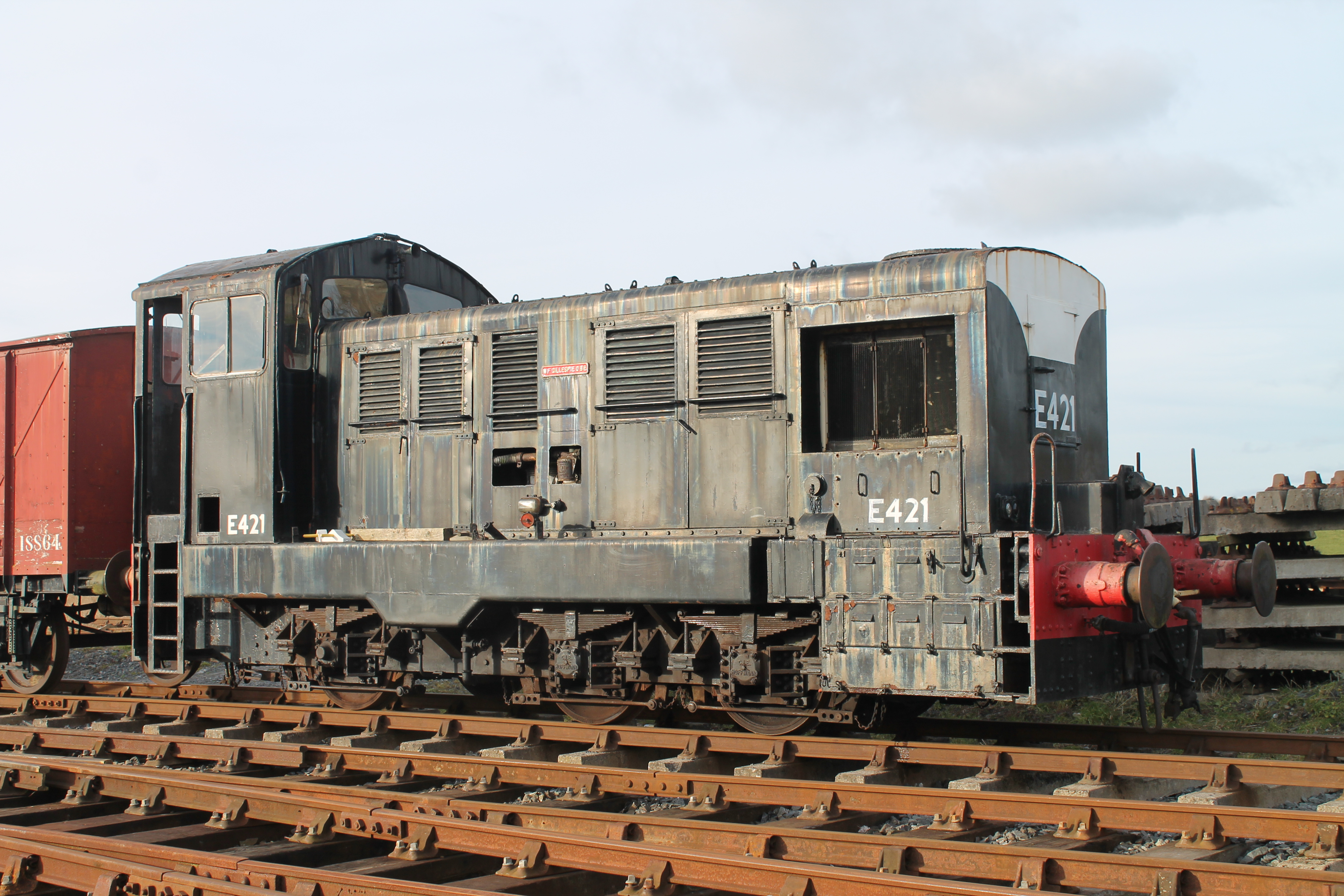 E Class No. E421 at DCDR